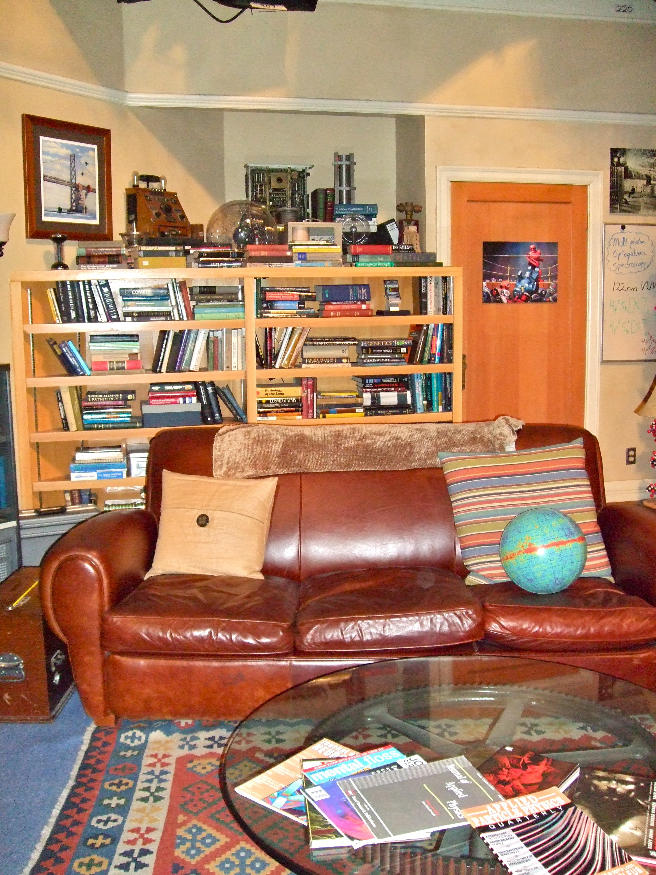 The Big Bang Theory sets at the Warner Bros. Studios, Burbank.